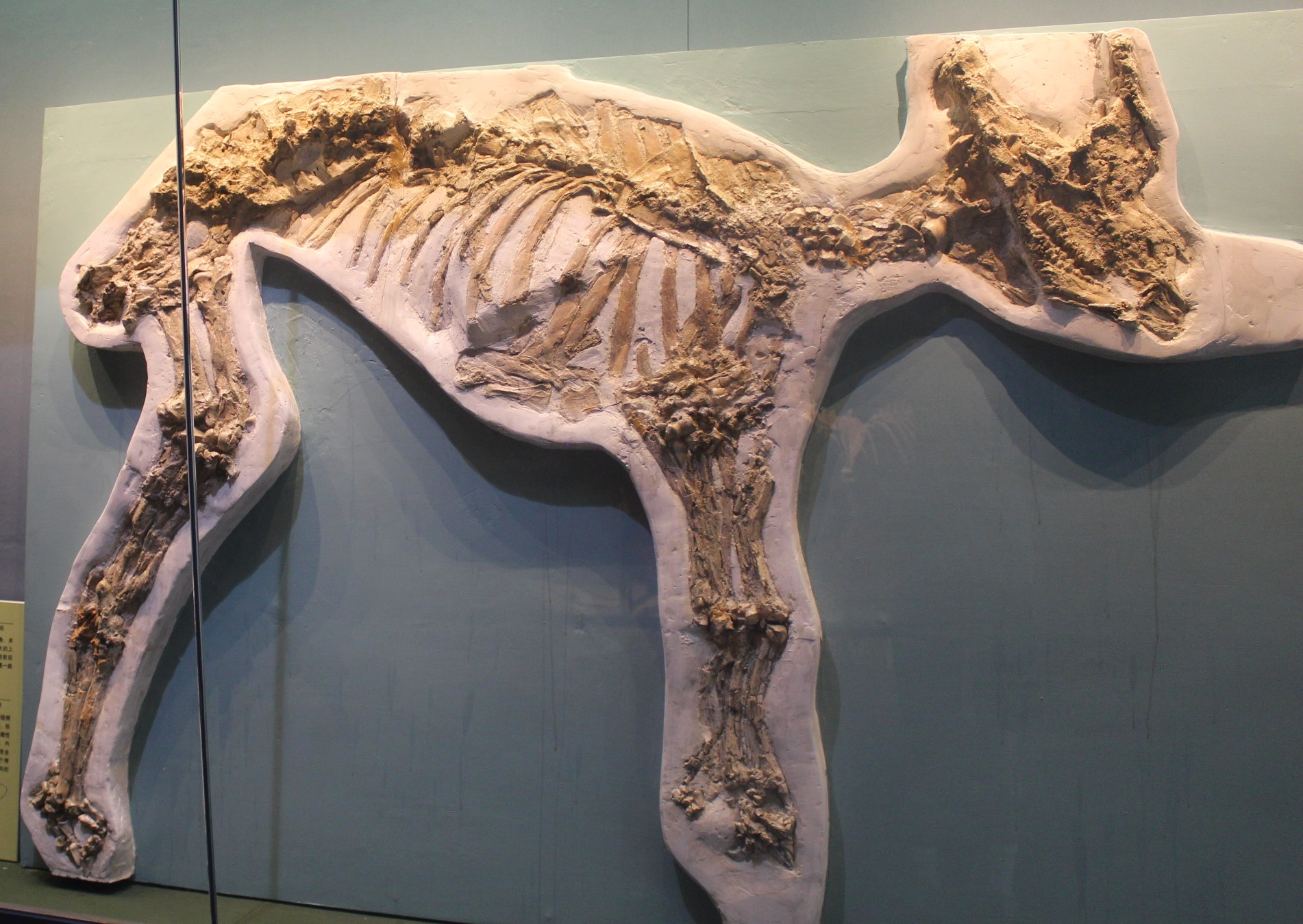 Skeleton of Palaeomeryx on display at the Tianjin Natural History Museum.